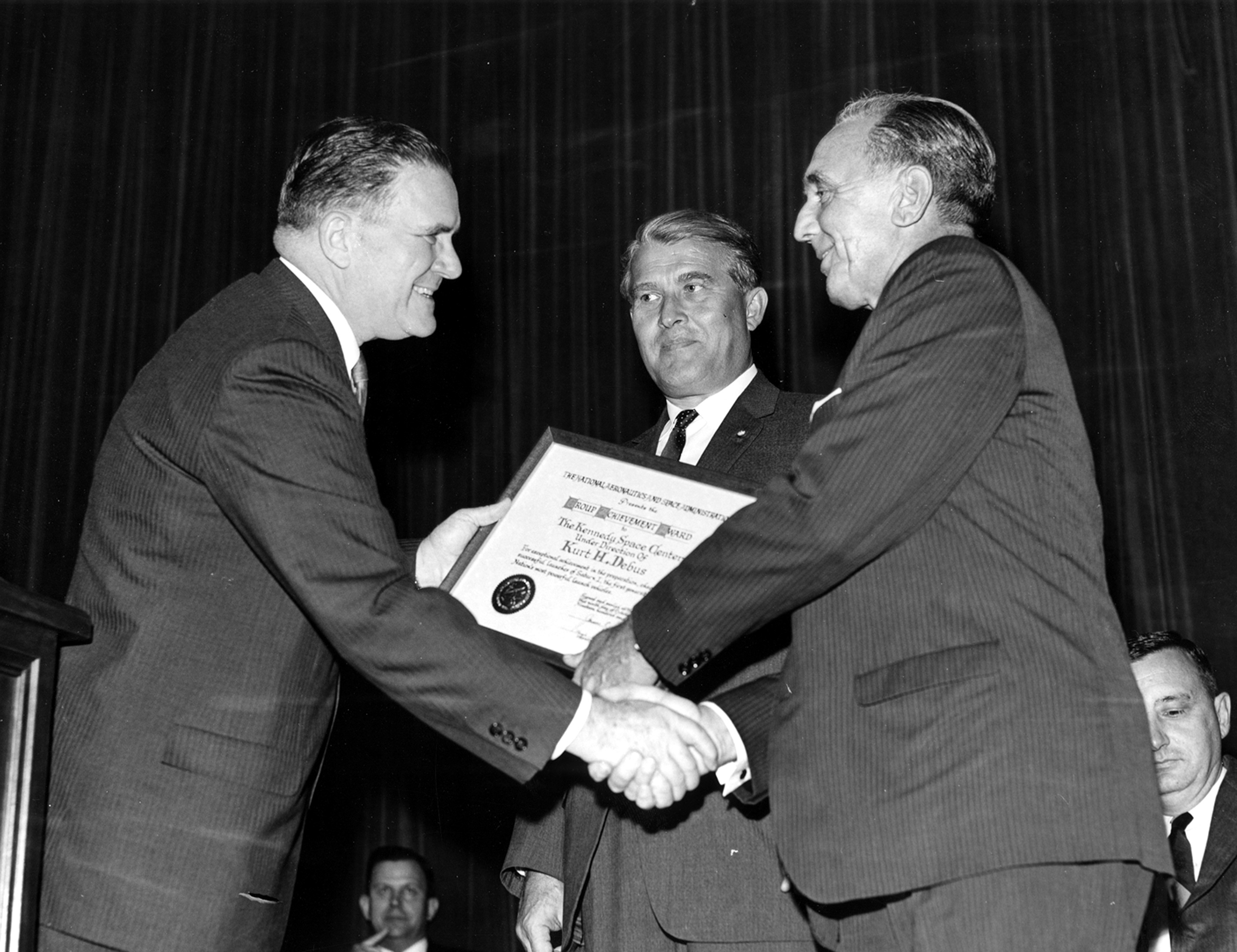 NASA Administrator James E. Webb presents the Group Achievement Award to Kennedy Space Center Director Dr. Kurt Debus, for Kennedy Space Center's role in the successful launch of the Saturn I rocket.